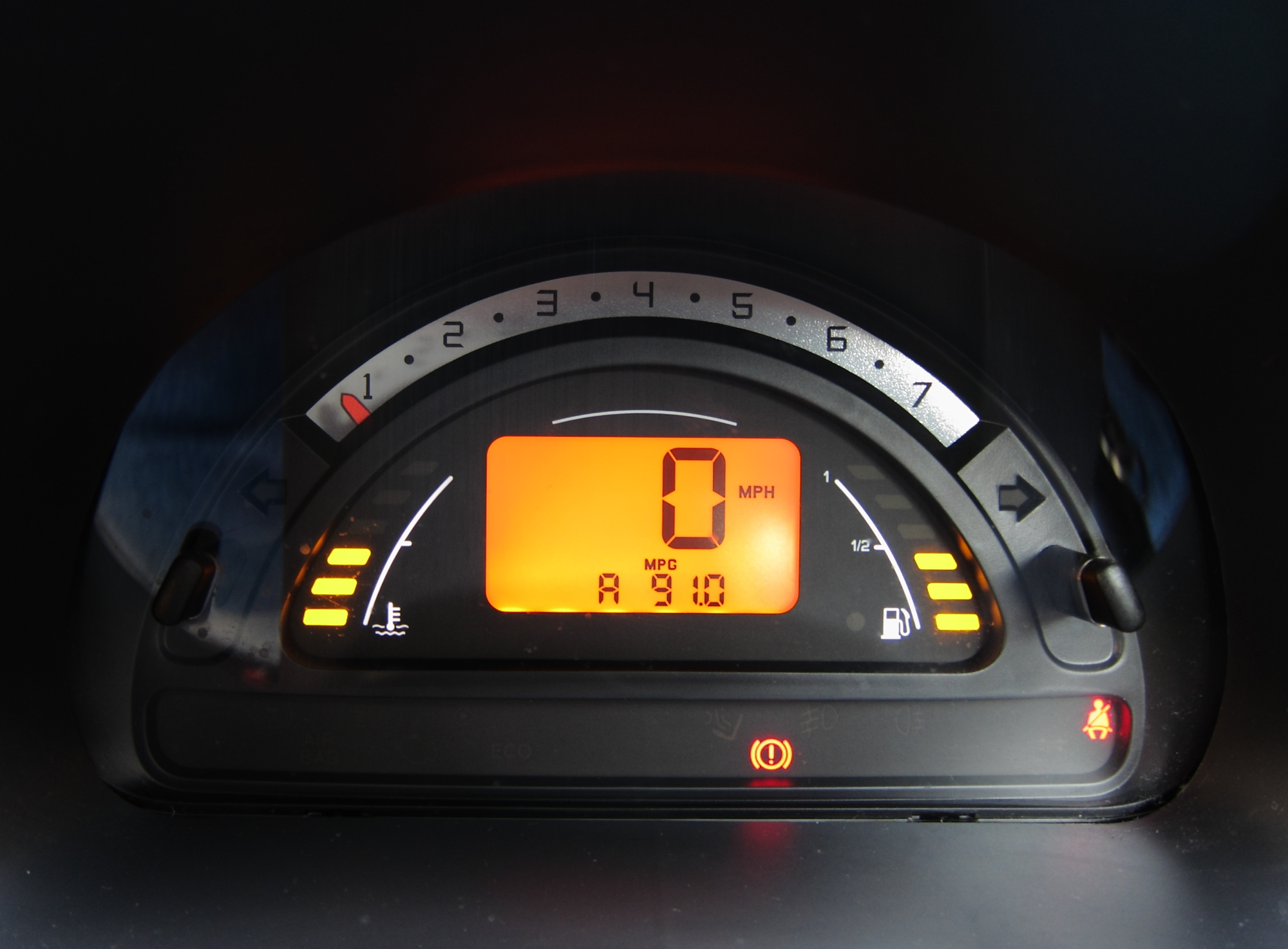 The French may not be perfect but they do produce exceedingly economical cars. My 2004 Citroen C2 1.4 HDi Diesel